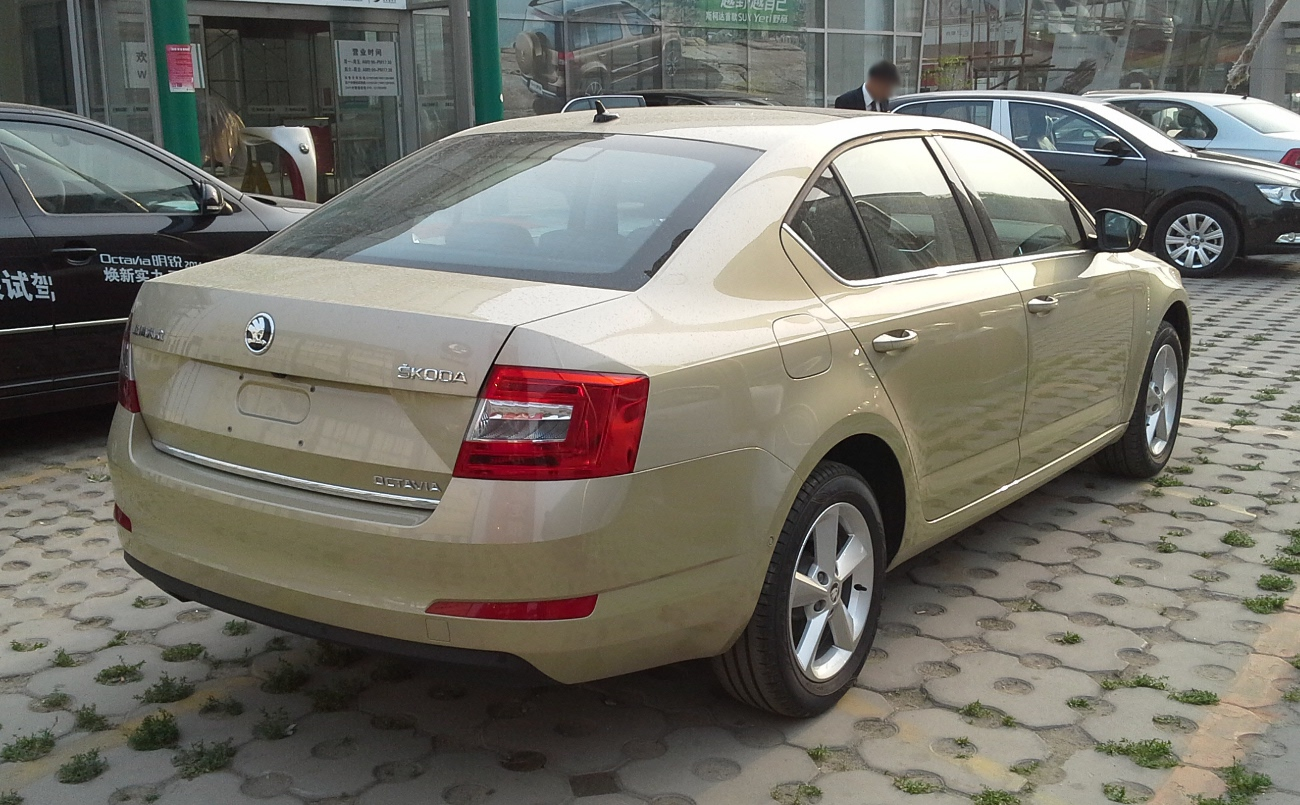 Škoda Octavia III photographed in Beijing, China.